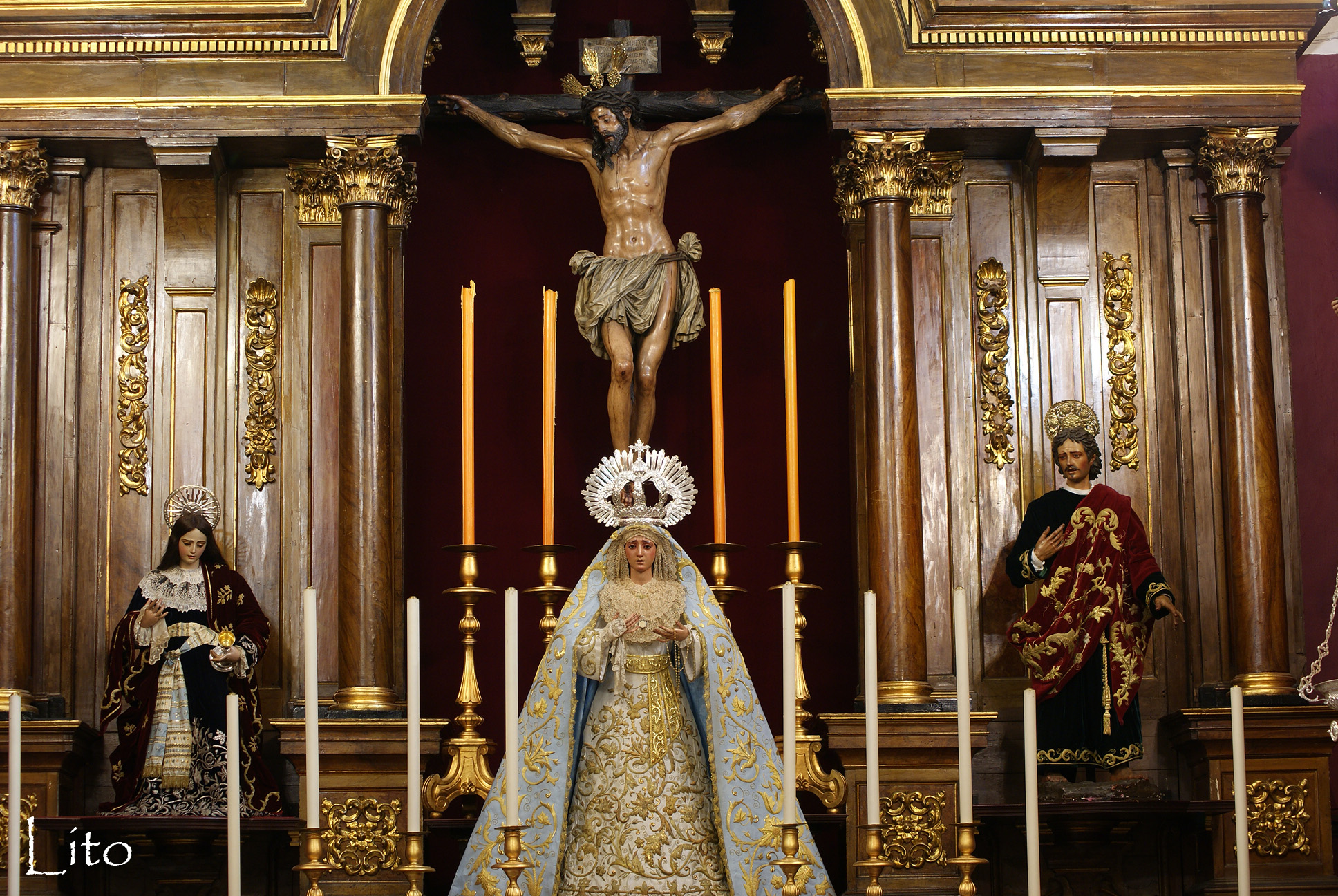 Imágenes de Montserrat en su capilla